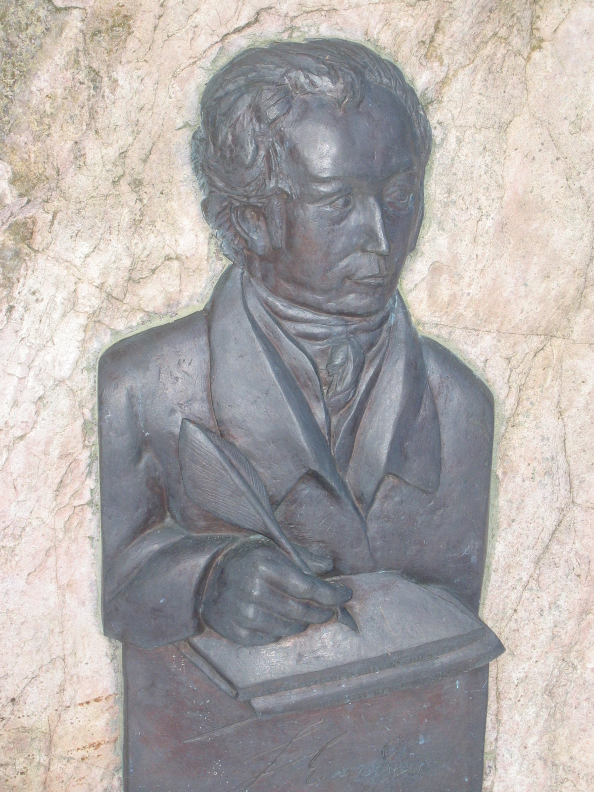 Heinrich Luden, a German historian Source: Own photography, 2005-12-30 relief of Heinrich Luden from Loxstedt. Lower Saxony, Germany